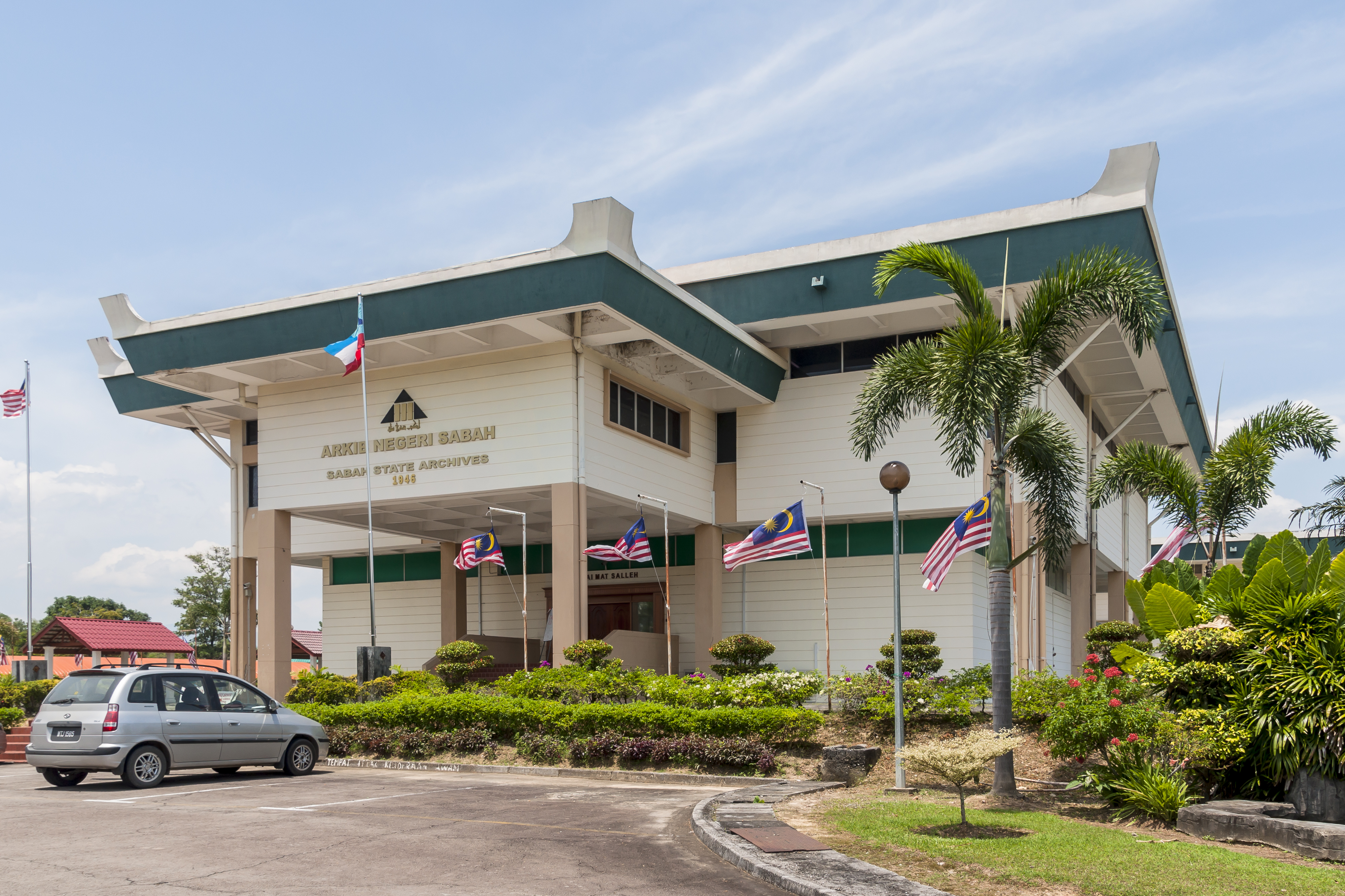 Kota Kinabalu, Sabah: Sabah State Archives